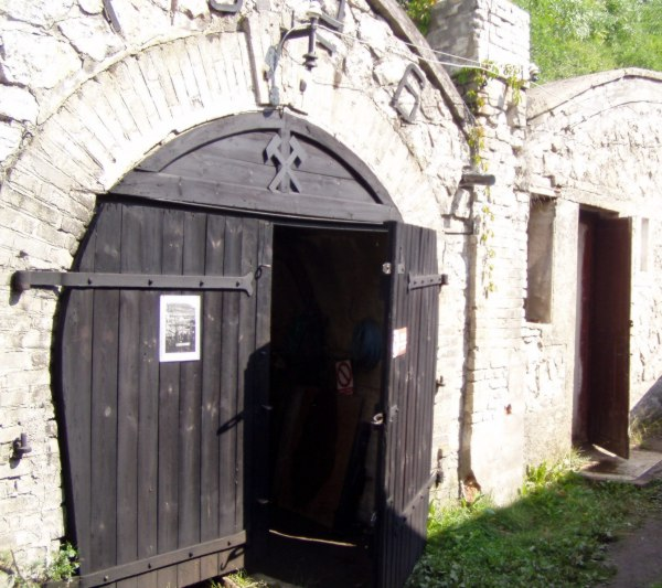 Door into the mine in Chrustenice, Czech Republic. Vstupní štola Chrustenické šachty